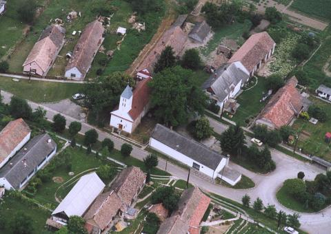 Peterd, Hungary, aerialphotography